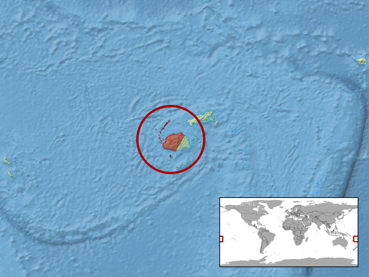 geographic distribution of Brachylophus vitiensis (Native: Fiji)